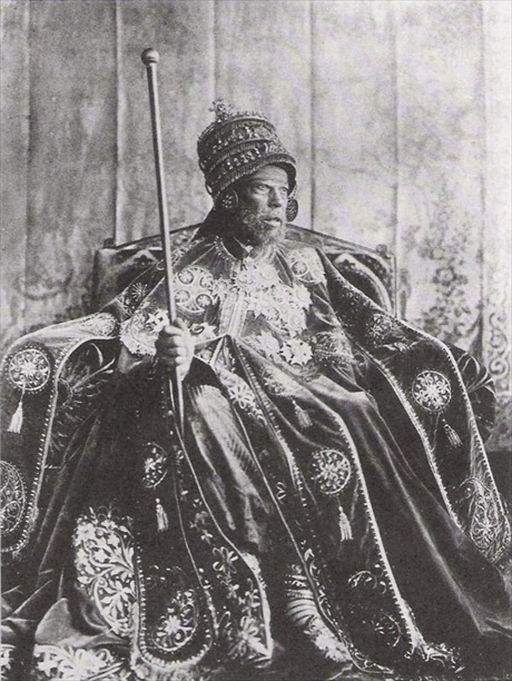 Menelik II